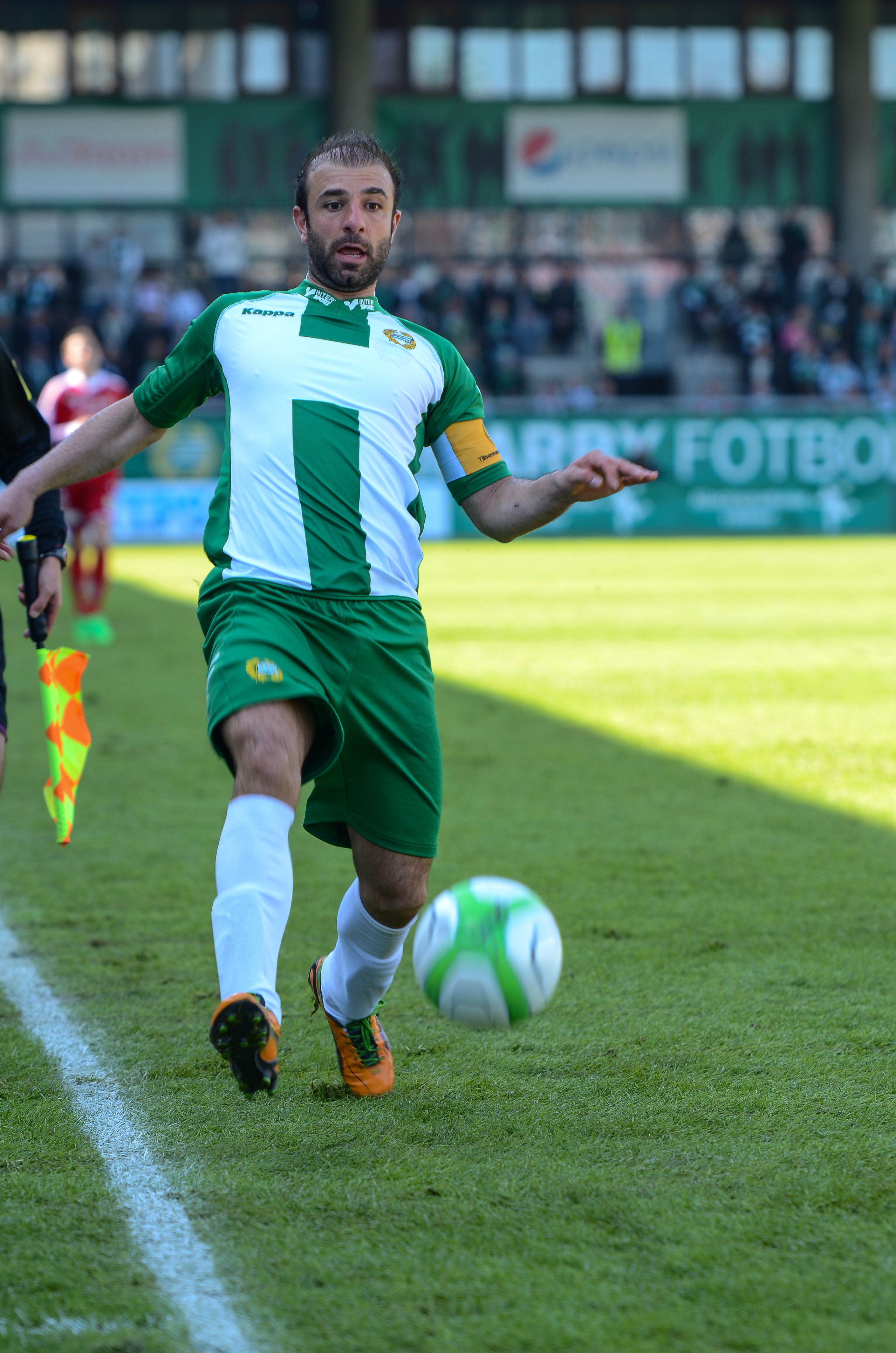 Kennedy Bakırcıoğlu. Hammarby IF vs IFK Värnamo, April 14, 2013.